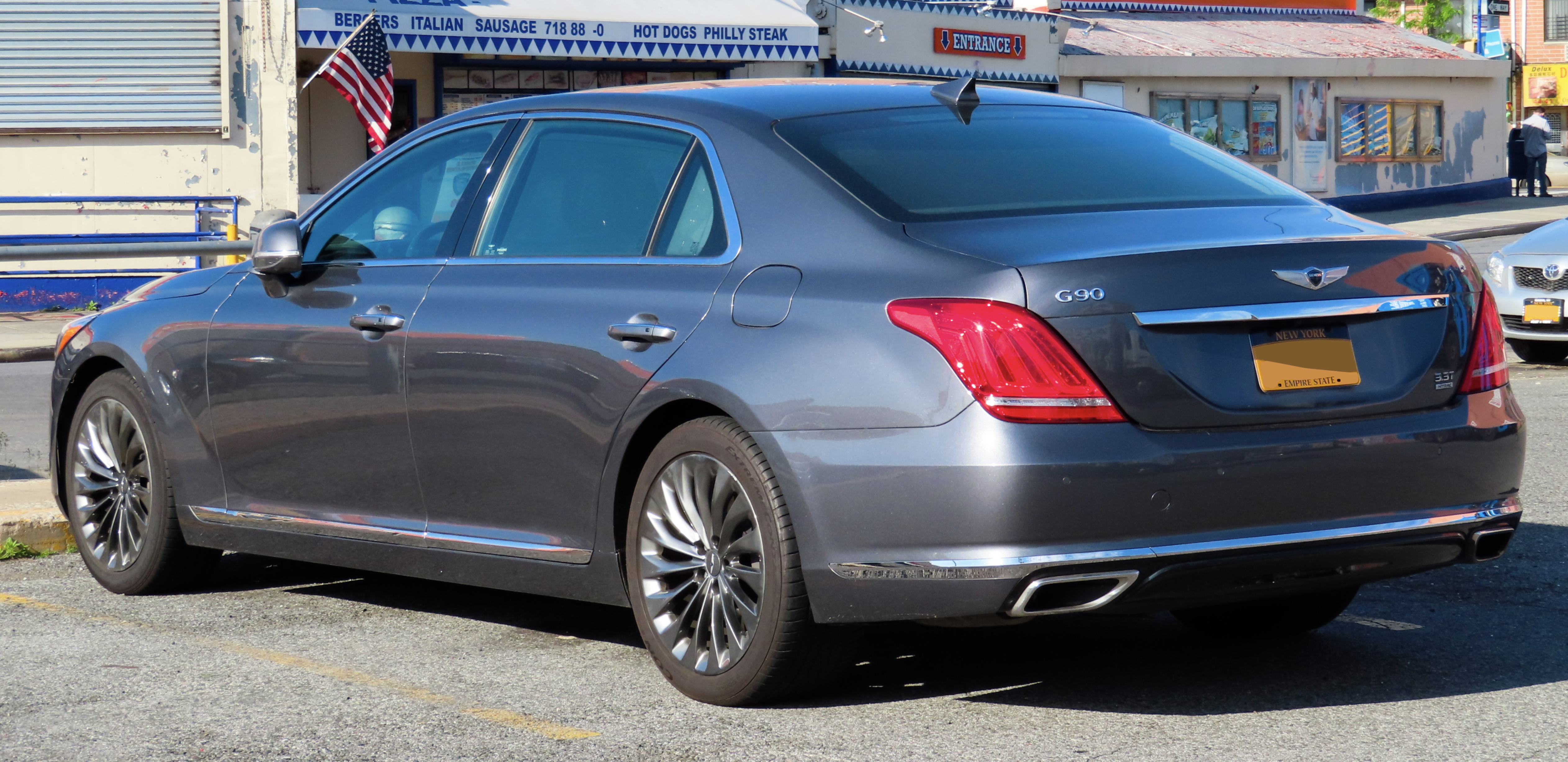 A 2017 Genesis G90 Premium photographed in Flushing, Queens, New York, USA